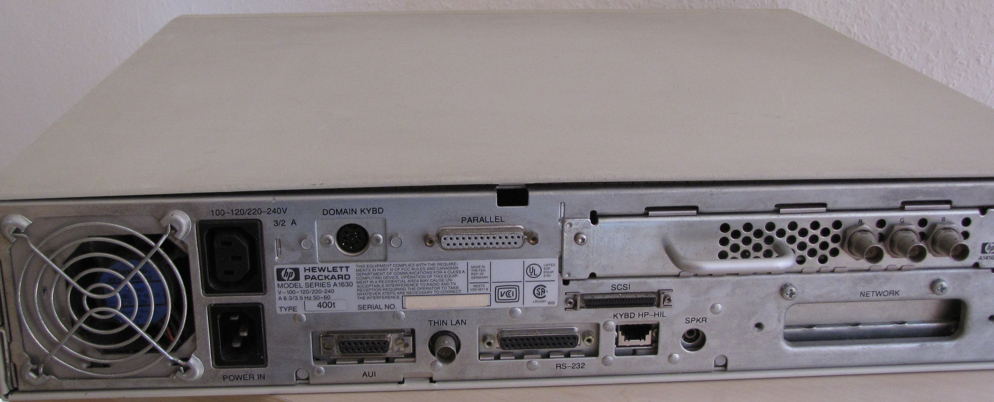 Back side of a HP9000 400t workstation.